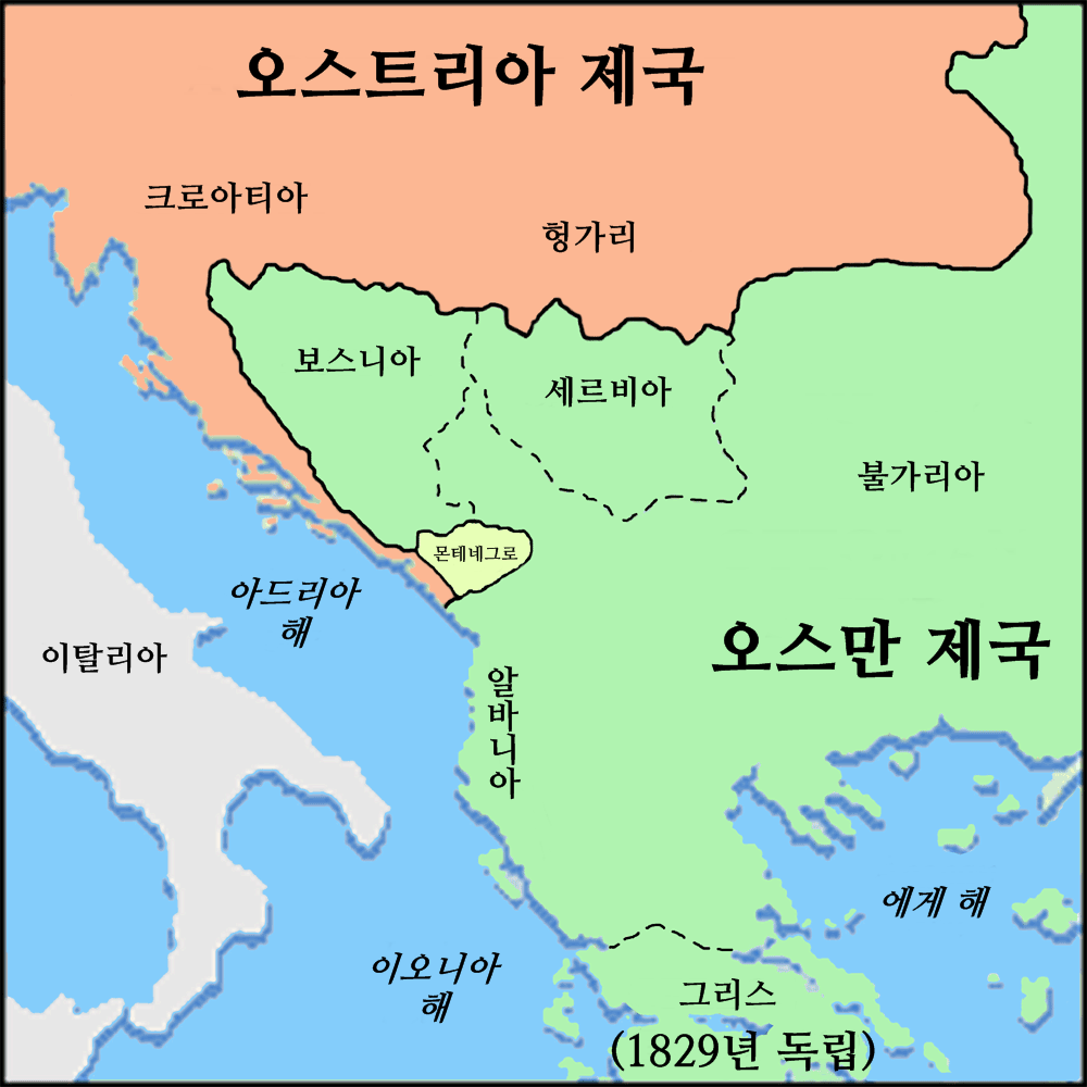 Balkans in 1815.